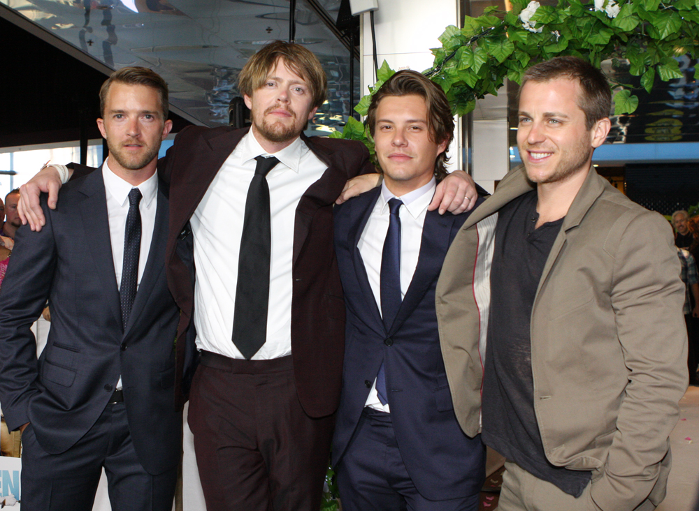 A Few Best Men Red Carpet Movie Premiere In Sydney, Australia A Few Best Men enjoyed its Sydney red carpet premiere earlier this evening at Bondi Junction's Event Cinema. In essence, it's a a comedy about a groom and his three best men who travel to the Australian outback for a wedding. The flick has numerous Sydney based media men and women tipping that this may be just the start of a reinvigoration of Olivia Newton-John's acting career, but its really too early to know for sure. Maybe O-N-J and her agent know something we don't. Twilight Eclipse hunk Xavier Samuel stars as the film's hapless bridegroom. British thespians Kris Marshall (Death At A Funeral) Kevin Bishop (Spanish Apartment), and Australian comedy star Rebel Wilson was there, as was Laura Brent (Chronicles of Narnia), Steve Le Marquand (Beneath Hill 60) and Tangle actor Tim Draxl. Even local MP Malcolm Turnbull and wife Lucy showed up in support. The flick, which was filmed in Sydney and the Blue Mountains, is hoped to be a return to form for Elliott, who has had mixed success since his 1994 smash hit The Adventures of Priscilla: Queen of the Desert. It's quite an unlikely acting platform for Newton-John, who many film industry commentators say her last decent film role was alongside John Travolta in Two of a Kind back in 1983. Elliott told the media that the Aussie singer/actress has fitted in well with the rest of the cast. "She's great. Everyone's coming together really well and she's really getting into it," he said. A Few Best Men opens in cinemas nationally on January 26, 2012. Director: Stephan Elliott Writers: Dean Craig Stars: Rebel Wilson, Olivia Newton-John and Xavier Samuel Websites A Few Best Men official website Icon Film Distribution Event Cinemas Nix Co Eva Rinaldi Photography Flickr Eva Rinaldi Photography Splash News Music News Australia